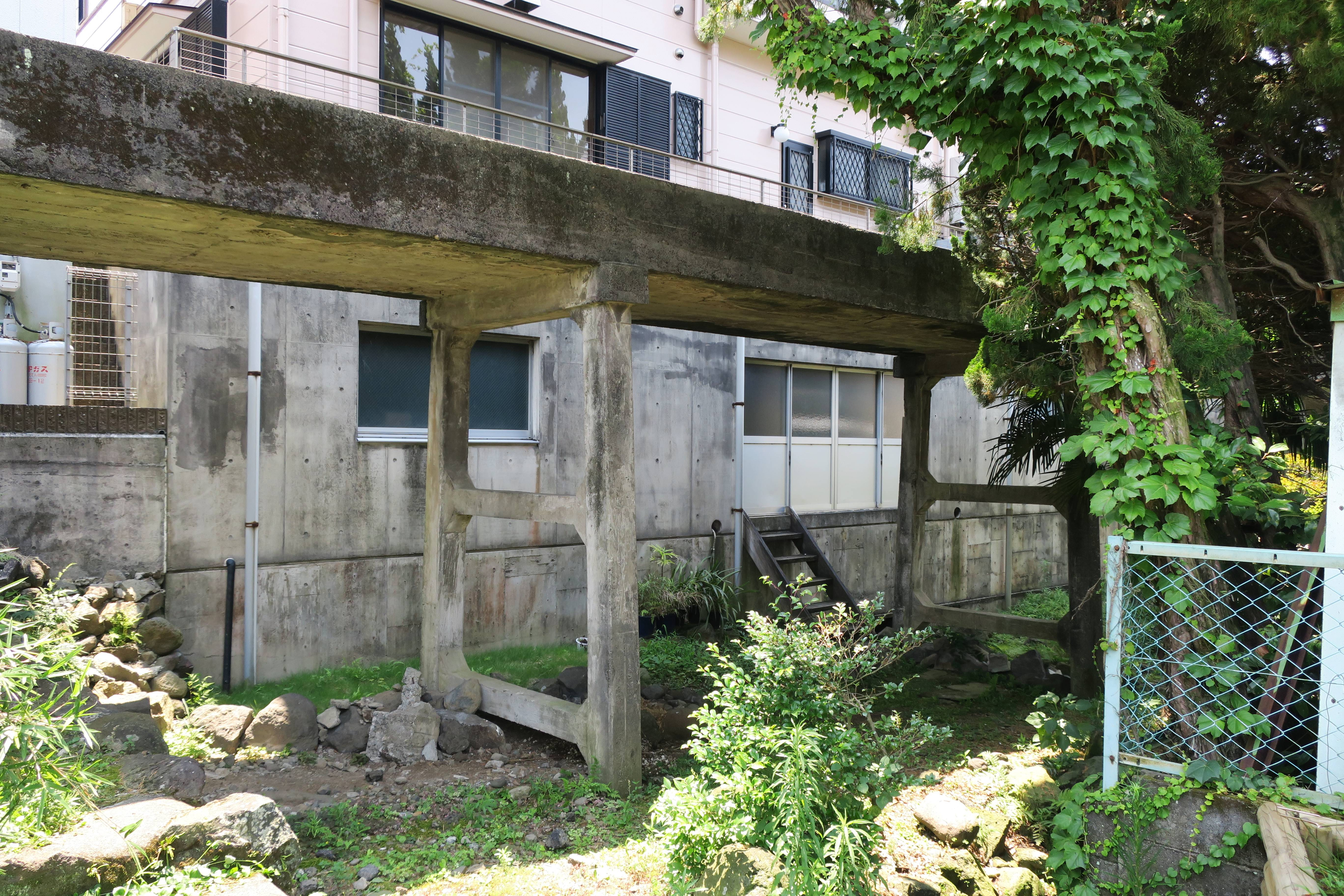 Sengandoi.